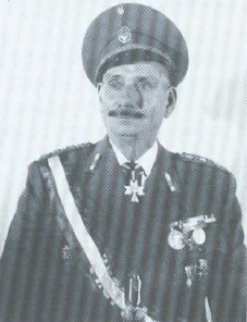 Croatian Armed Forces Colonel Ibrahim Pirić Pjanić.